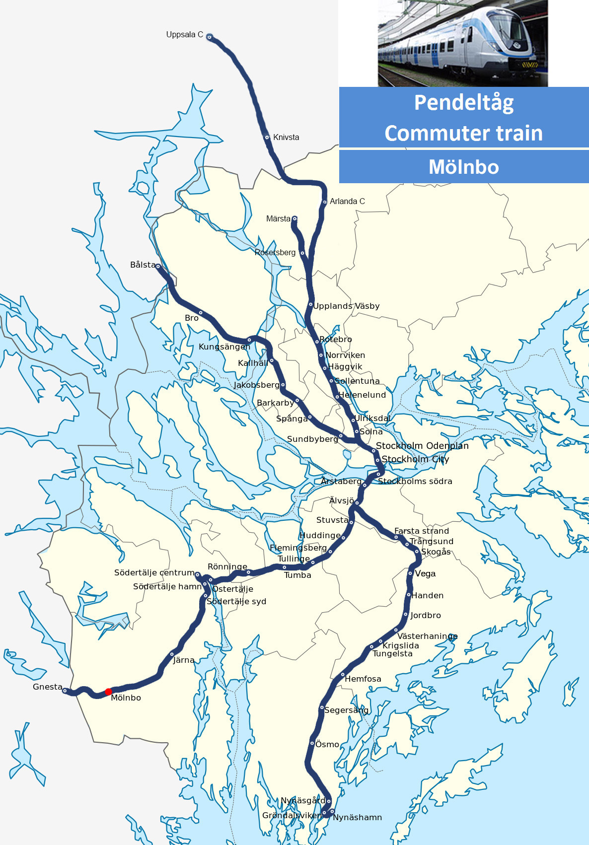 Mölnbo station map